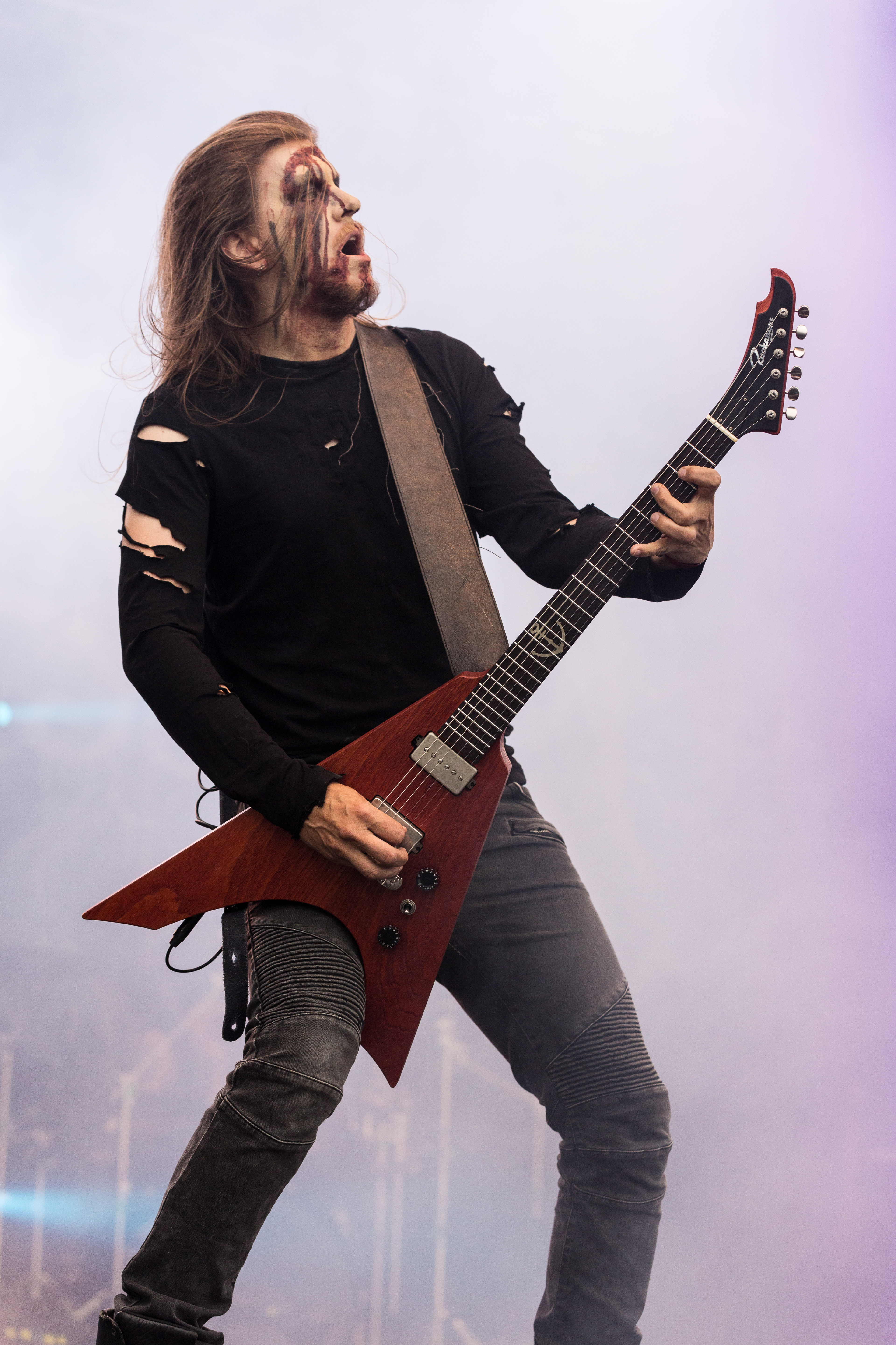 The Finnish pagan black metal band Moonsorrow at the Party.San Metal Open Air 2017 in Obermehler-Schlotheim/Germany.